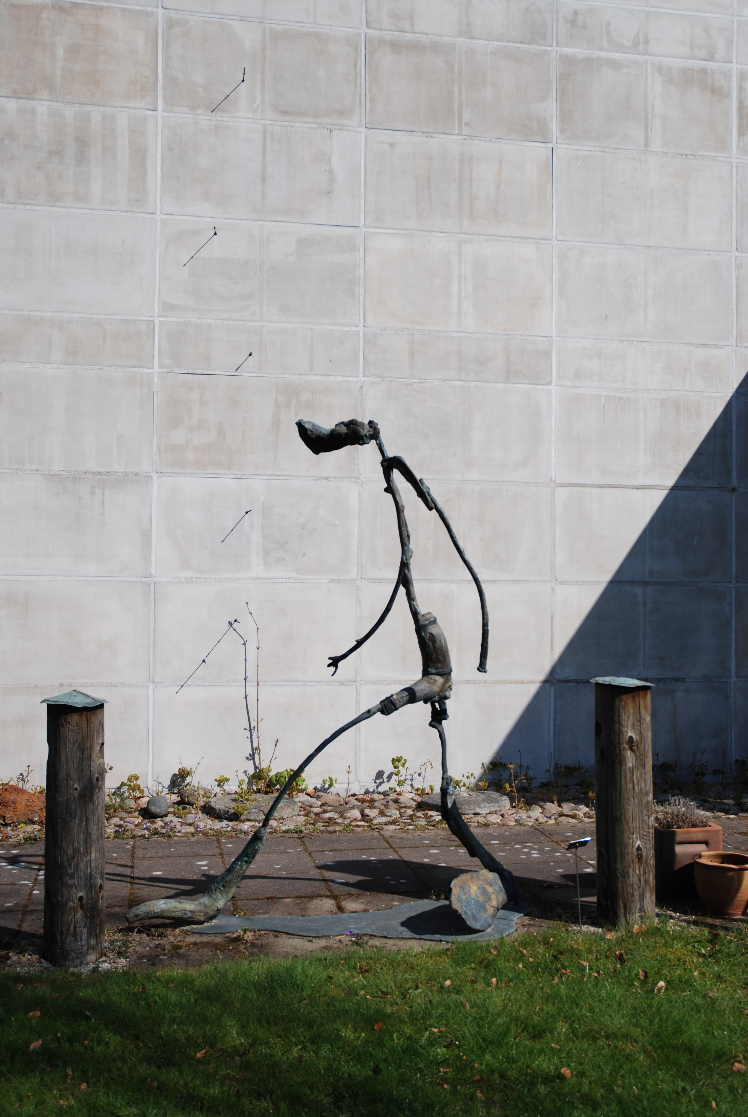 Sculpture by Peter Tillberg, Hishult Art Gallery, Sweden